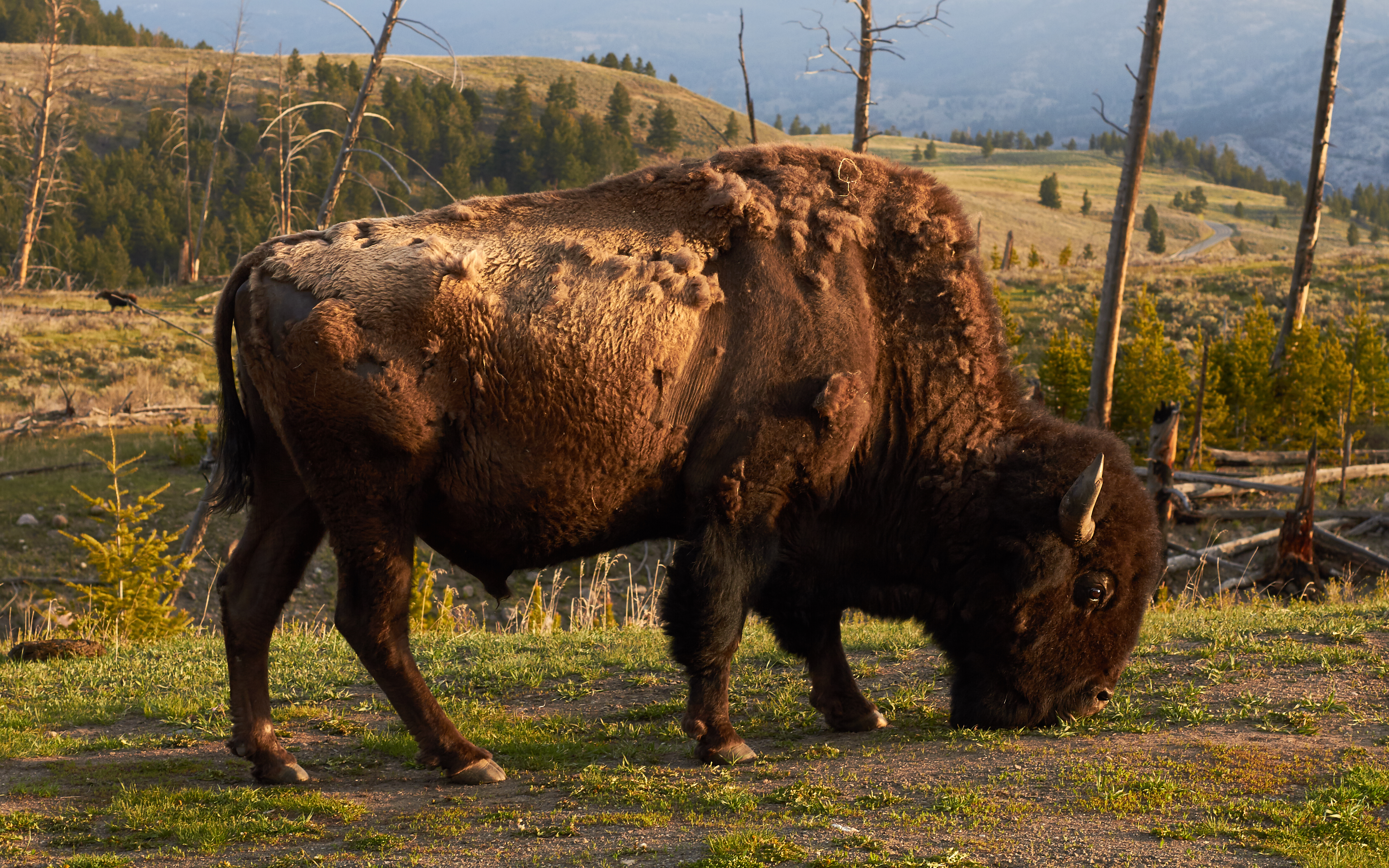 American bison ♂ (Bison bison bison) in Yellowstone National Park, Wyoming, United States. Only a week after this photo was taken, President Obama signed the National Bison Legacy Act, officially making the American bison the national mammal of the United States. Please also notice the moose photobombing the bison on the left.